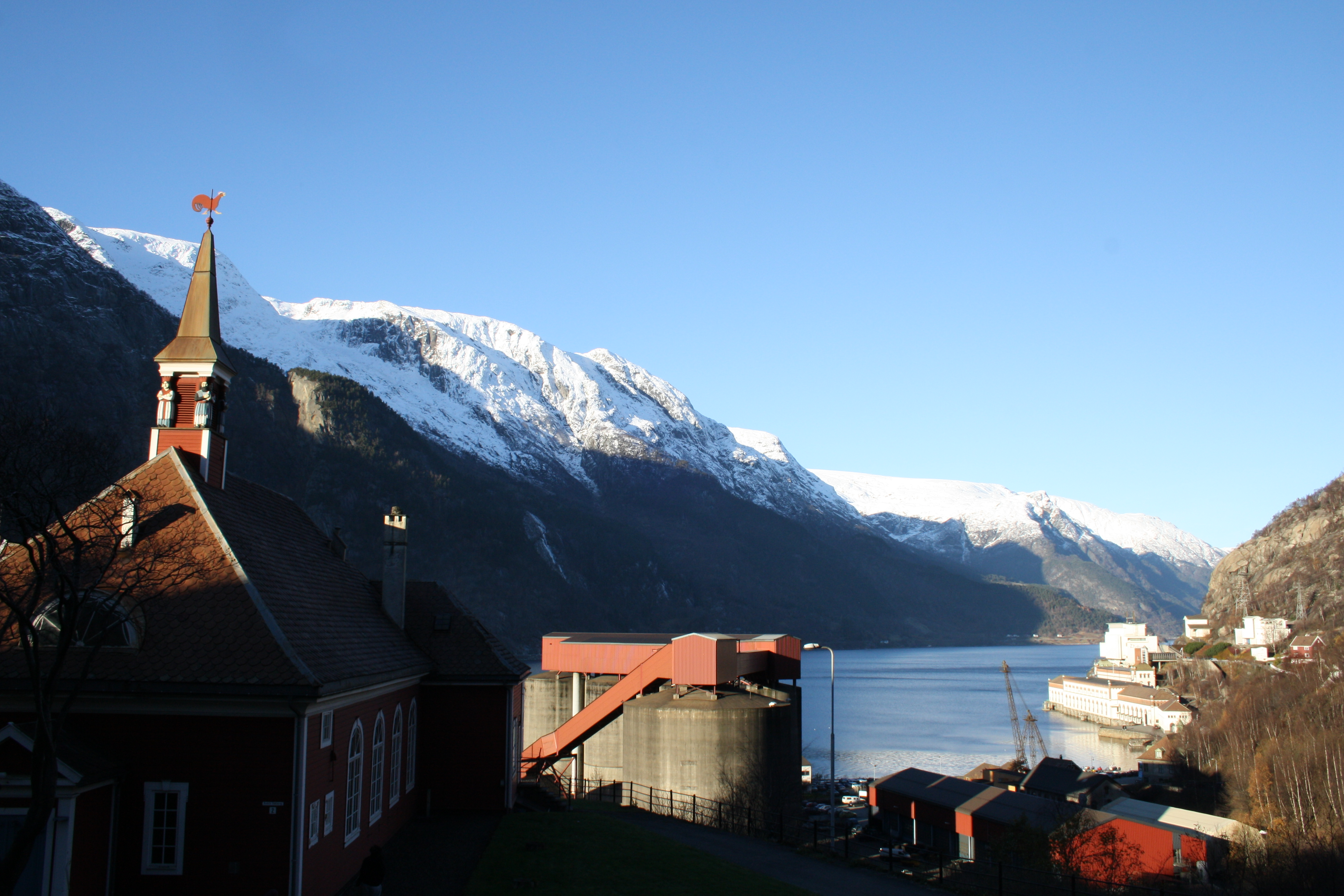 Festiviteten, silos at the ilmenite upgrading facility and the hydro power plant in Tyssedal, Norway